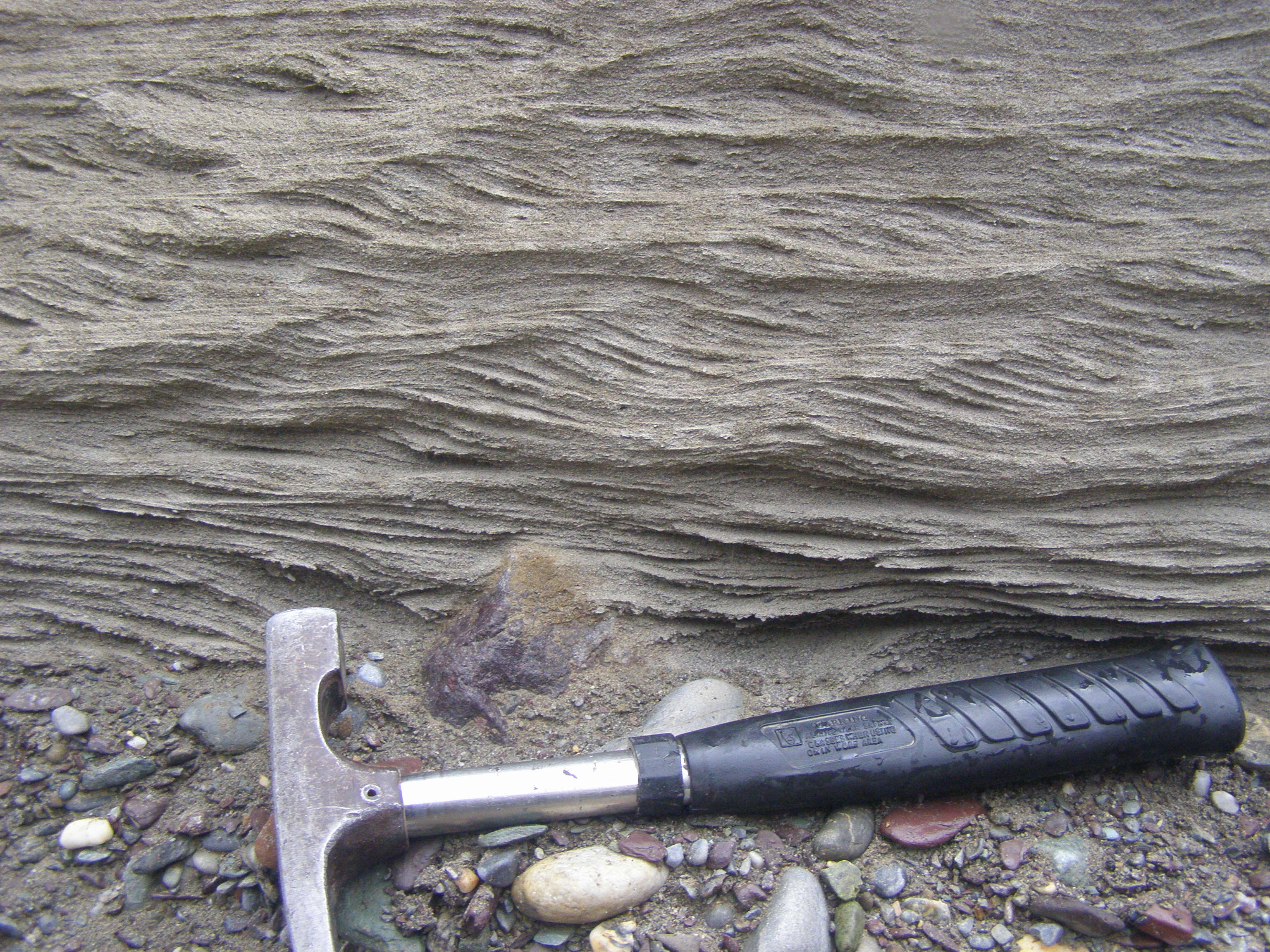 Climbing ripples. Seen in the Zanskar river valley, Ladakh, NW Indian Himalaya.